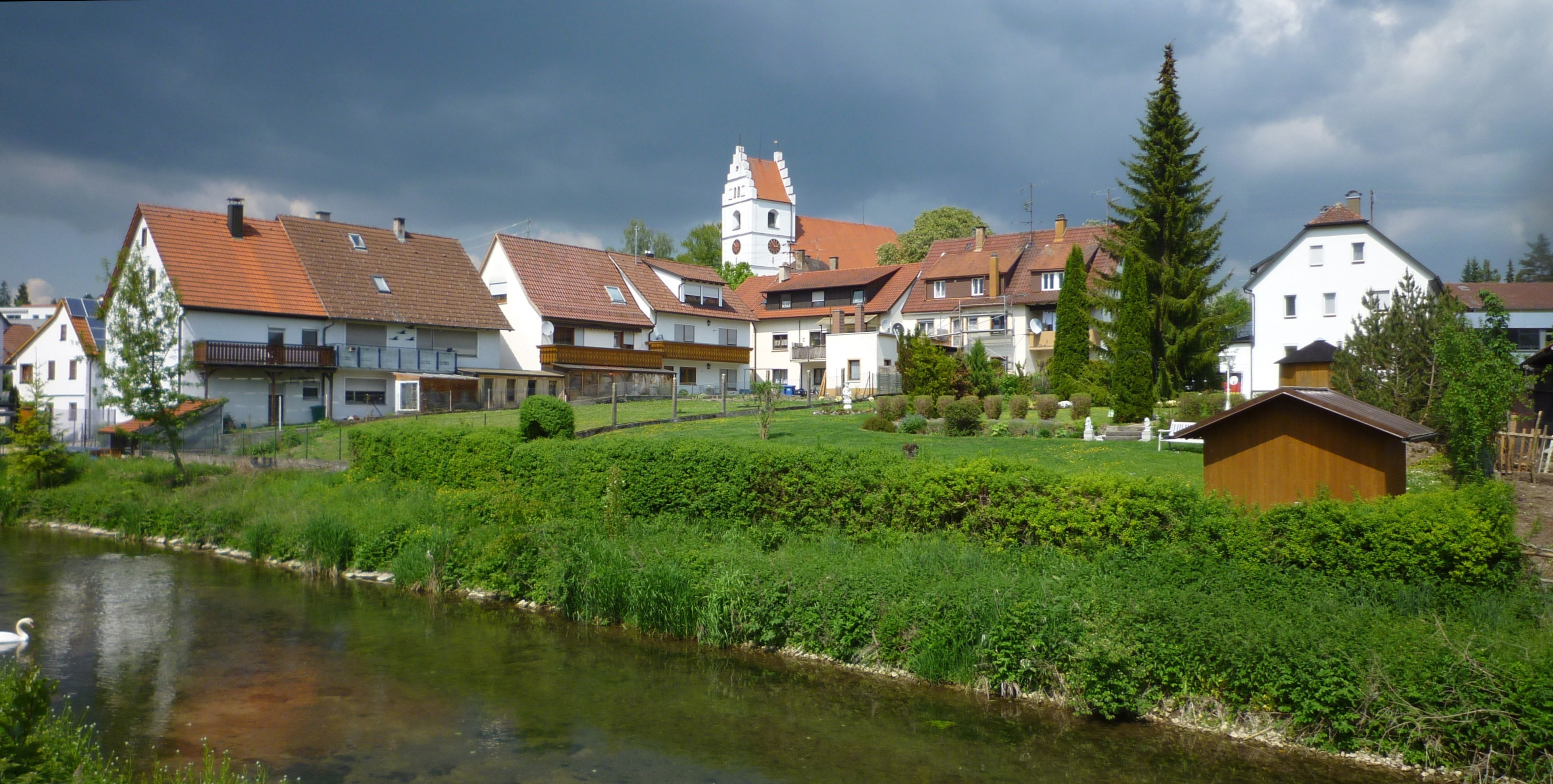 Gammertingen, Swabian Alb with river Lauchert.